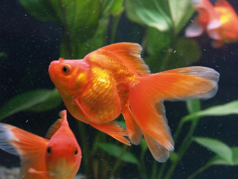 GOLD FISH